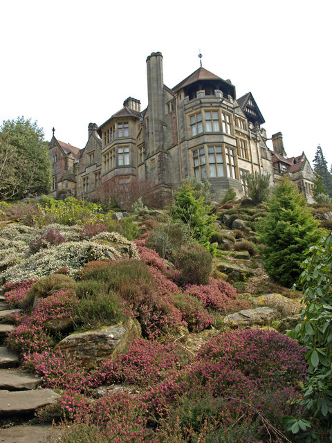 Rockery at Cragside